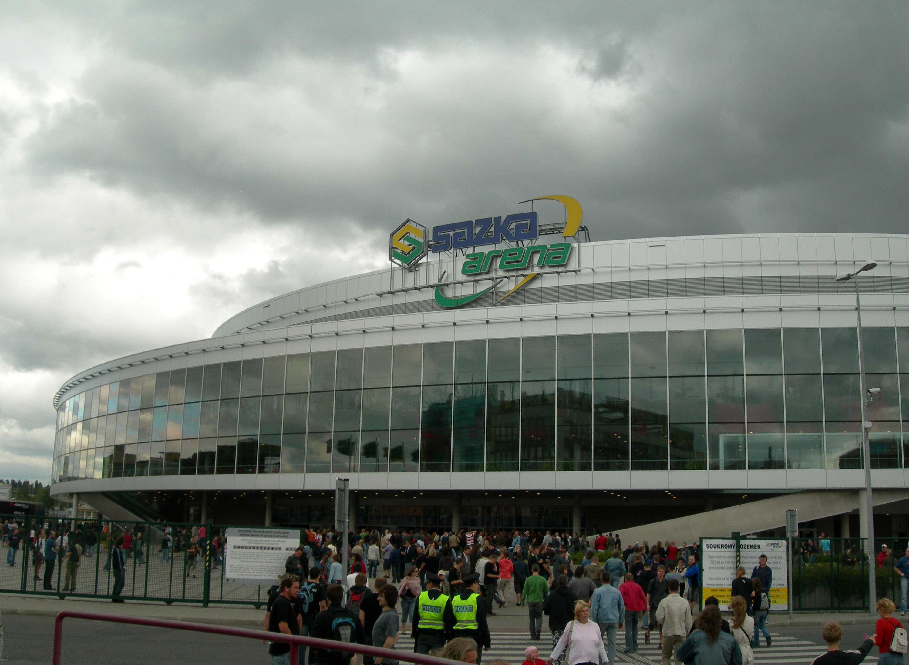 Sazka Arena, Prague, before Ozzy Osbourne's concert